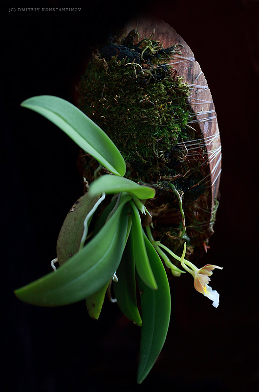 Trichocentrum fuscum